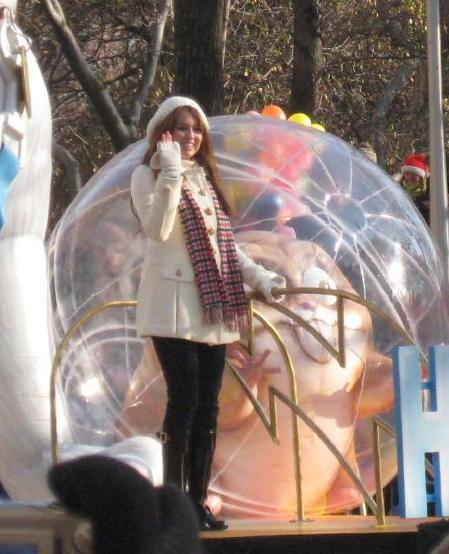 A teen in a parade.